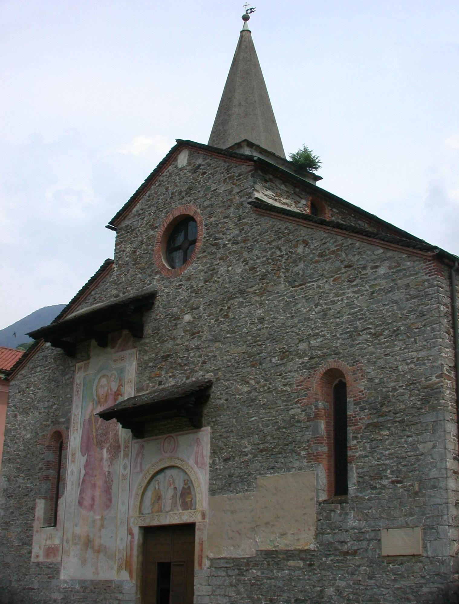 The Chiesa San Biagio in Bellinzona